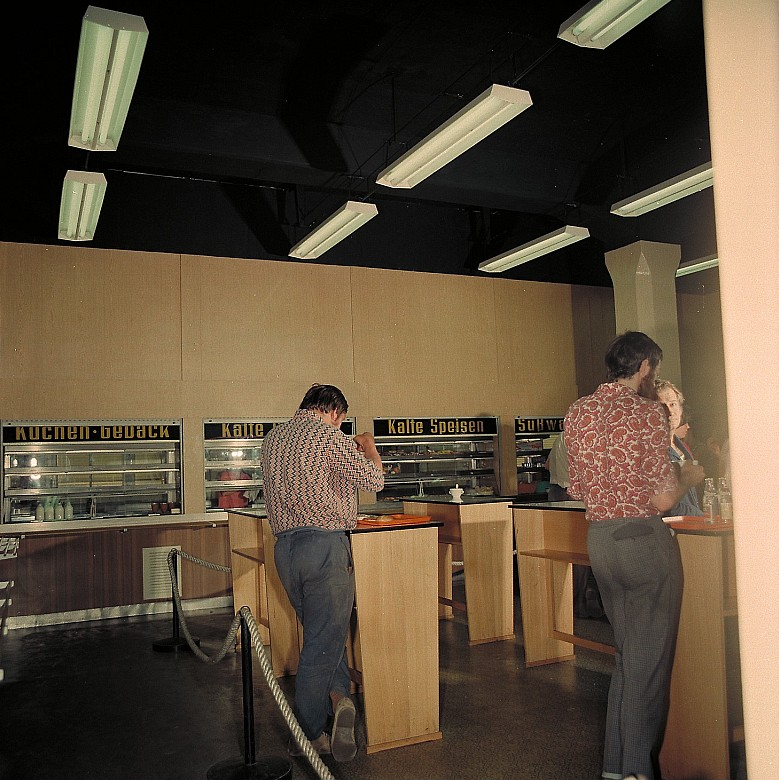 Original image description from the Deutsche FotothekKantine